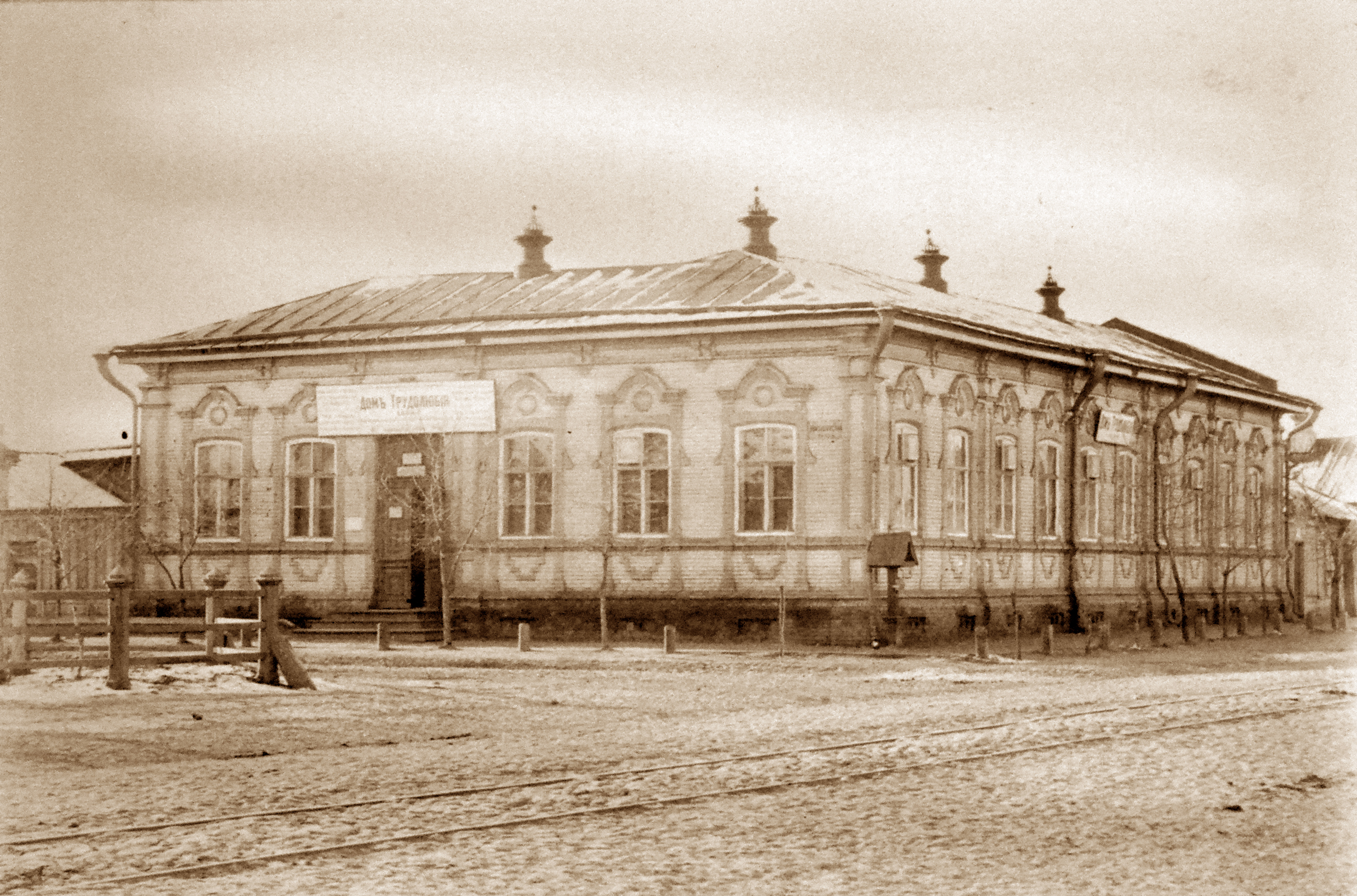 House of Diligence in Saratov